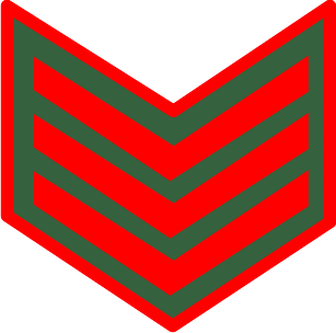 Chief Corporal rank insignia that used on combat uniforms of Indonesian Army and Indonesian Air Force (holder of command)